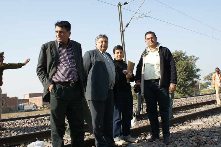 Professor T D Dogra with his team Rajinder Singh, Sanjiv Lalwani and Anupuma Raina near Agra UP.